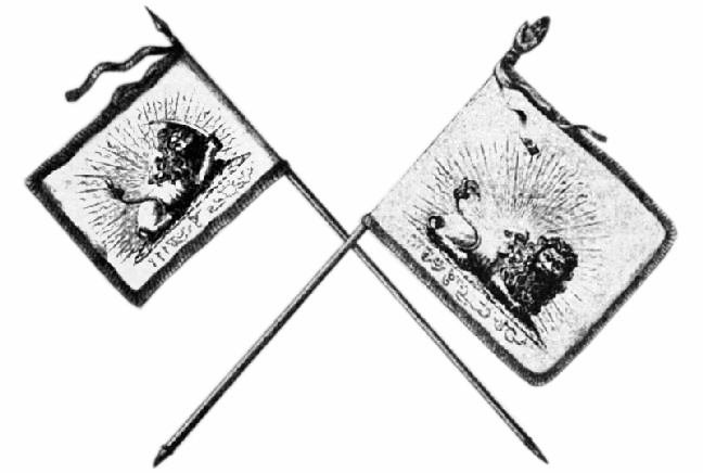 Flag of Iran (Fat'h Ali Shah) in the early 19th century depicted by Drouville.